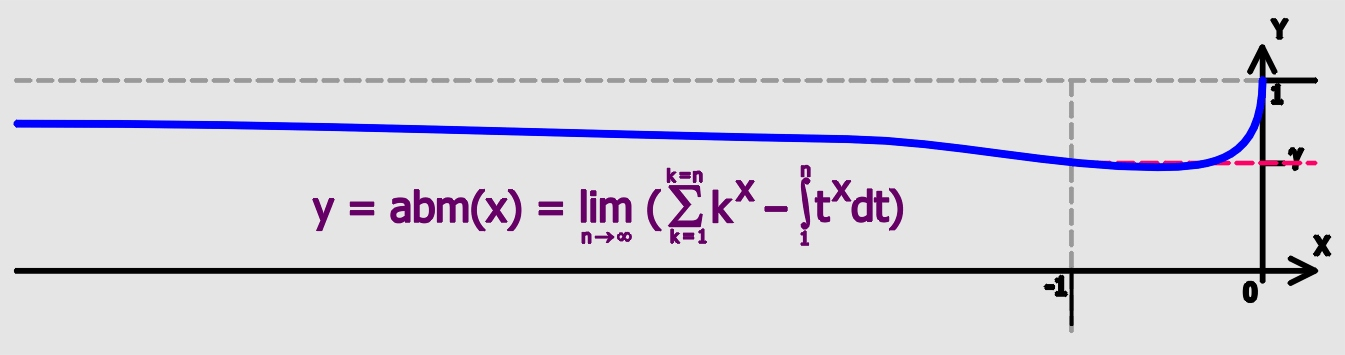 The function abm (x), which is a generalization of the formula of Euler-Mascheroni.